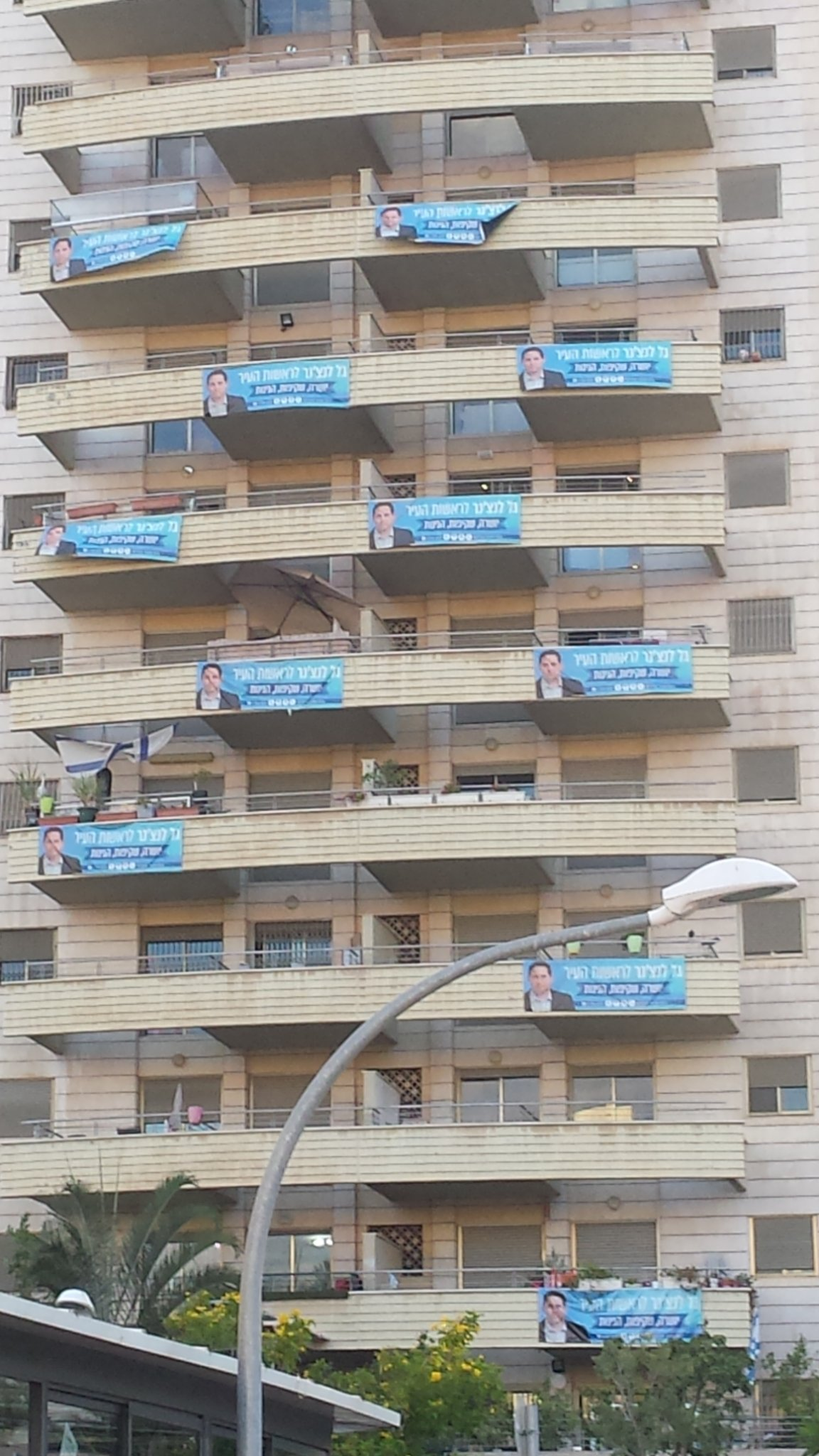 Building in Yoni Netanyahu street in Giv'at Shmuel with 11 election posters supporting mayoral candidate Gal Lenchner.